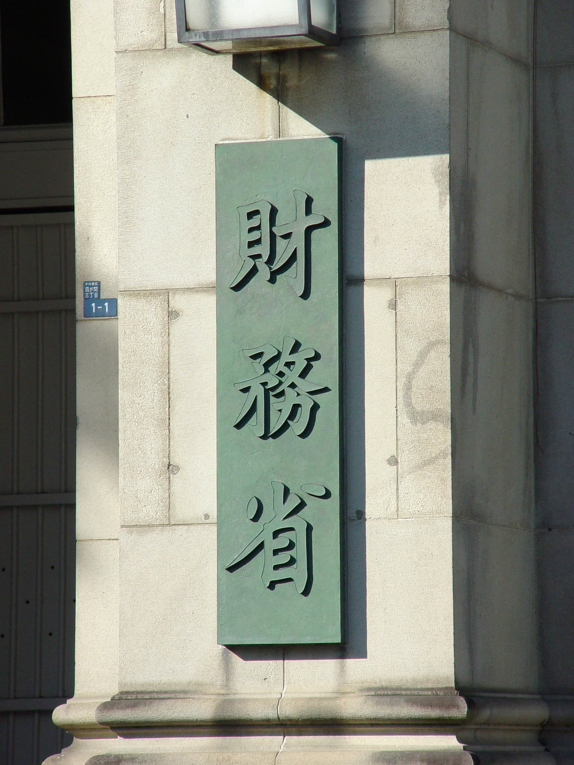 Public office building of Japan: The Ministry of Finance 庁舎： 財務省